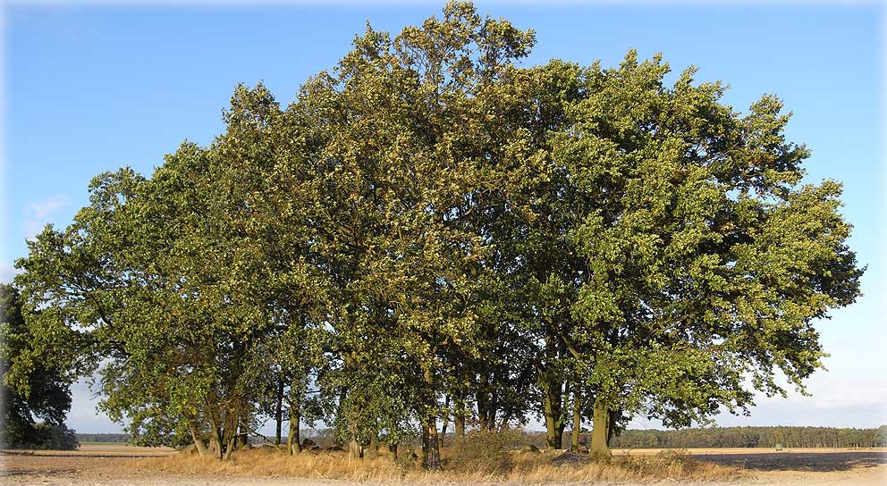 Leetze Steingrab 3, Chambered Tomb in Saxony-Anhalt